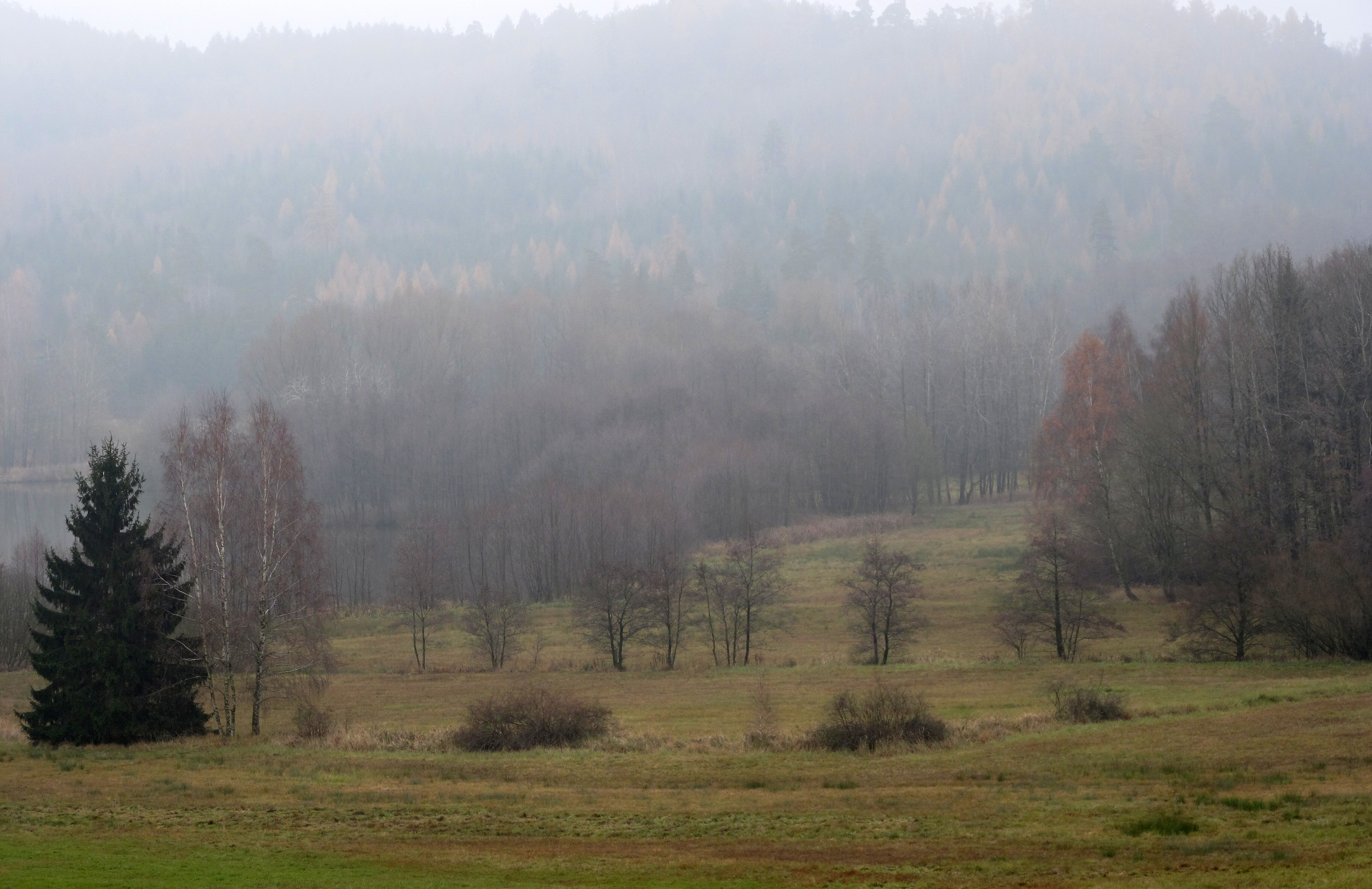 Natural monument Oborská luka near Jinolice, Jičín District in Czech Republic